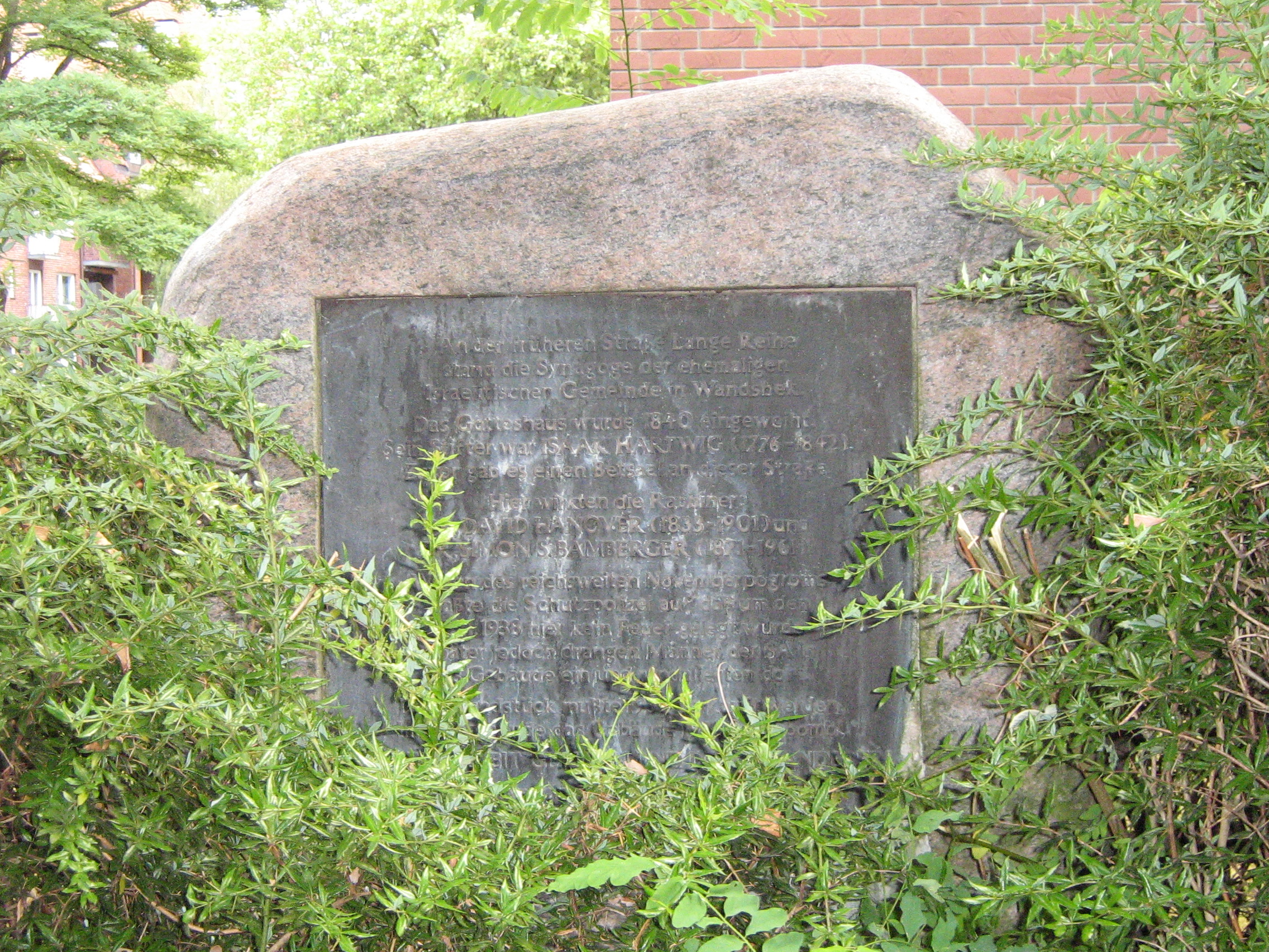 Memorial for the former Synagouge in Hamburg-Wandsbek Königsreihe